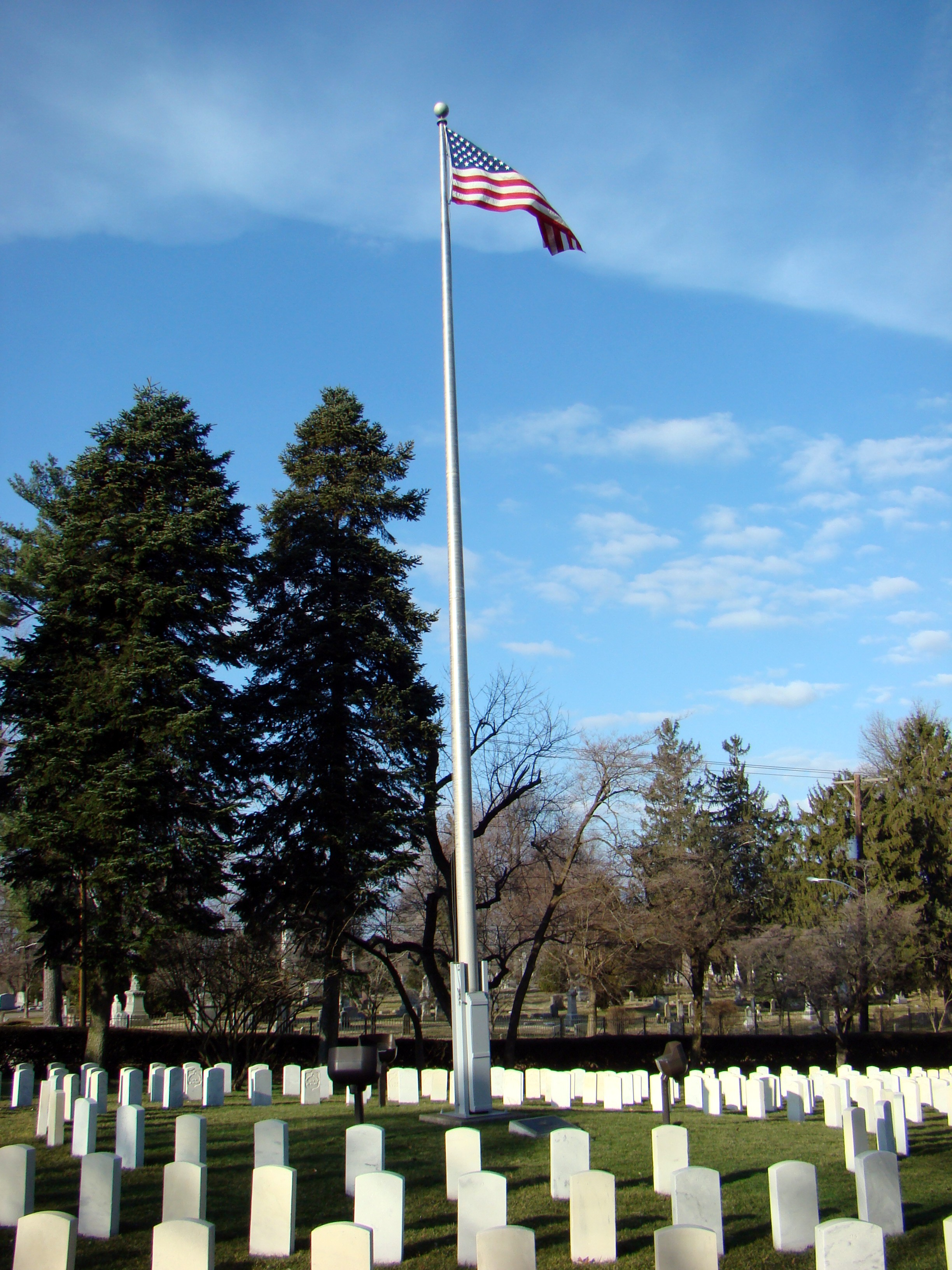 The Lexington National Cemetery located in Lexington Cemetery, in Lexington, Kentucky. The street address is Lexington Cemetery 833 West Main Street Lexington, Kentucky.